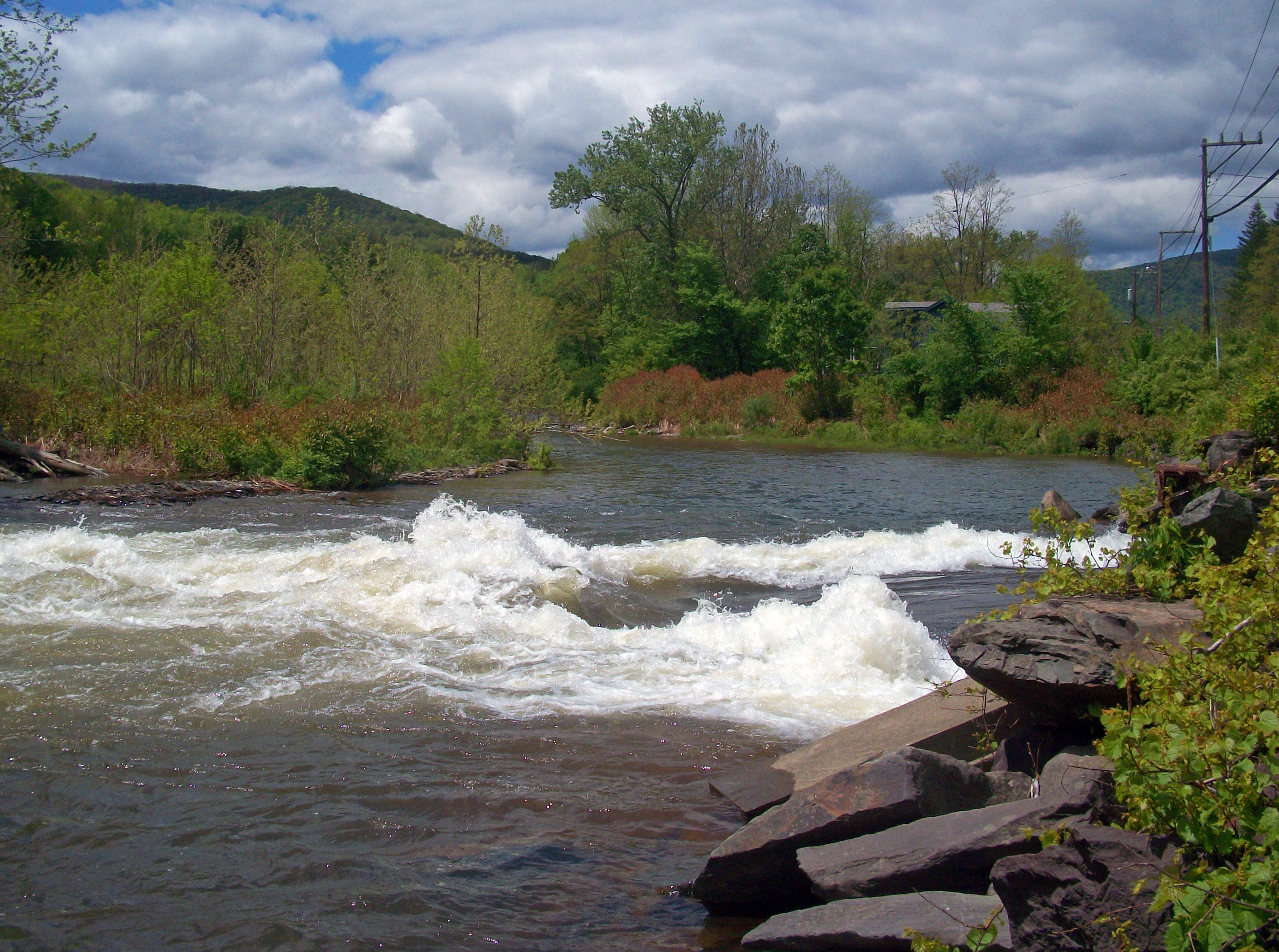 Discharge into Esopus Creek from Shandaken Tunnel, off NY 28 in Shandaken, NY, USA